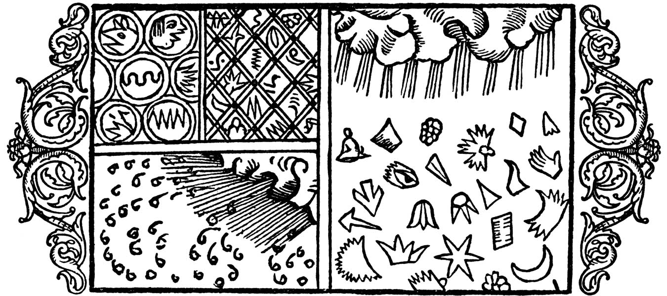 The two squares at left top are windows with covered with ice. At left bottom a snowfall. To the right we see snow chrystals.